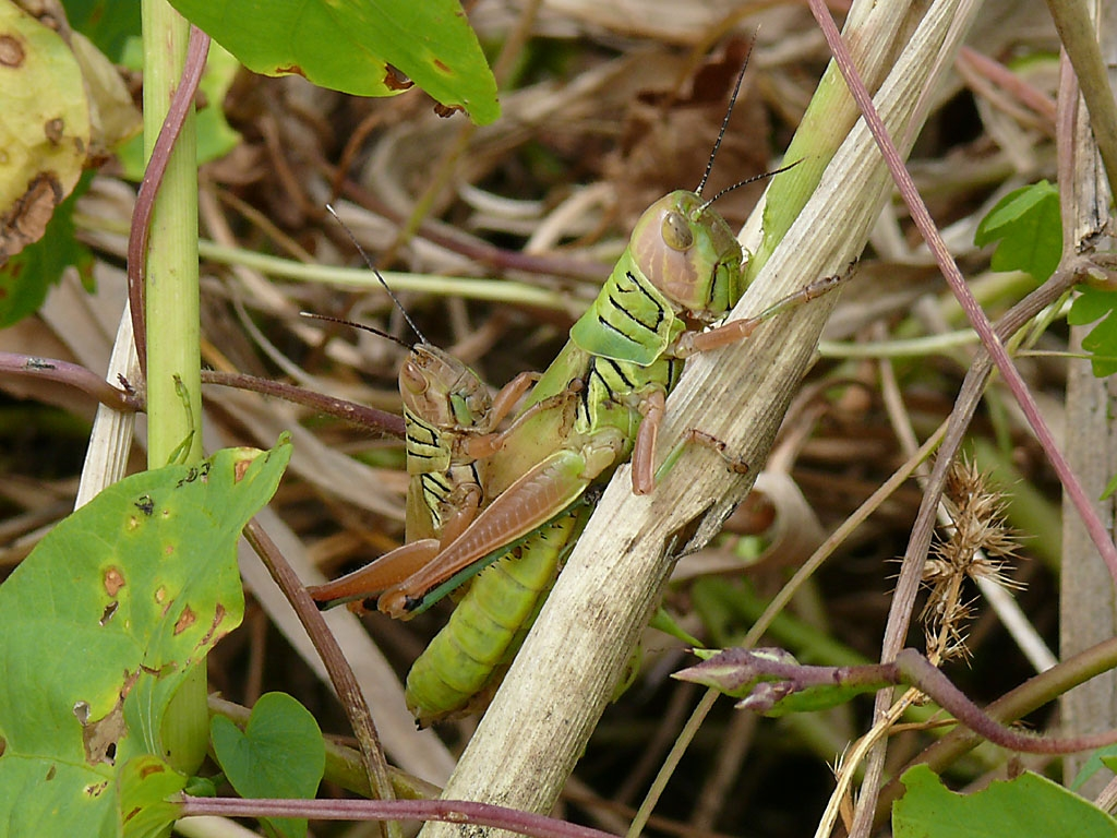 Copulating Hieroglyphus daganensis photographed near Mbissao, Senegal.